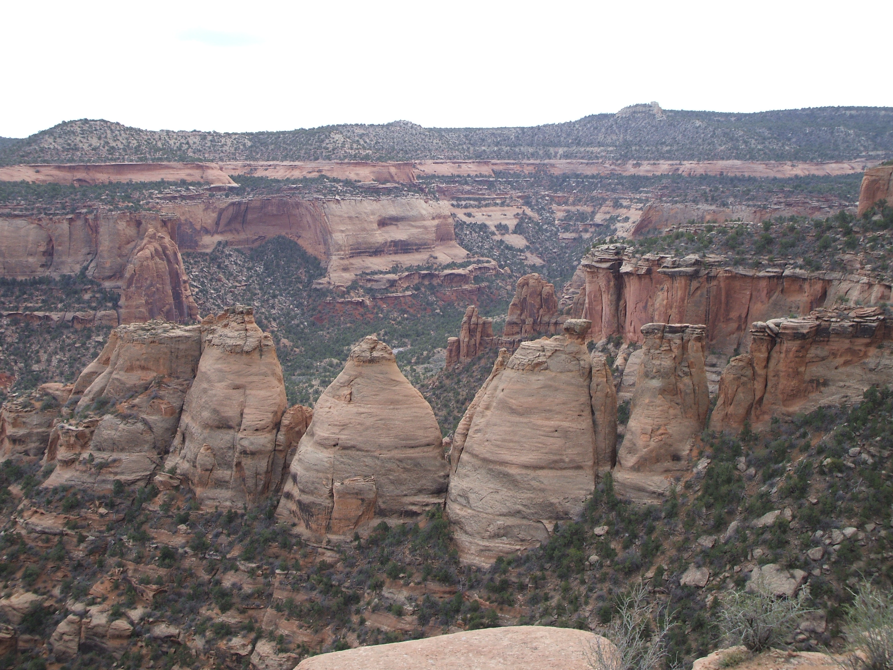 Felsformation im Monument Canyon (Colorado National Monument)